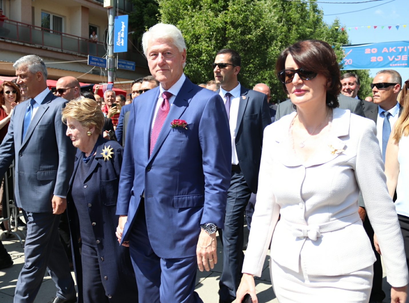 President Jahjaga with President Clinton and Secretary Albright.